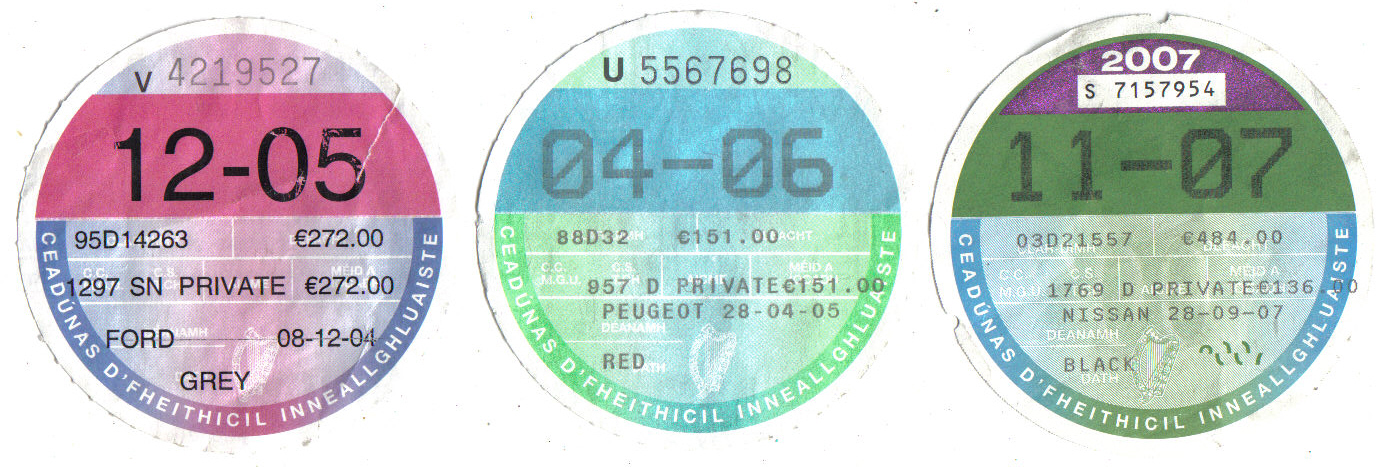 Motor tax discs, required in the Republic of Ireland to show payment of motor vehicle tax.